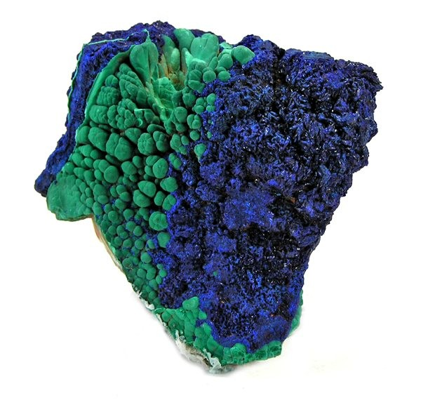 Azurite, Malachite Locality: Morenci, Copper Mountain District (Clifton-Morenci District), Shannon Mts, Greenlee County, Arizona, USA (Locality at ) A classic Arizona combo specimen, with a fine balance of green malachite and deep blue azurite side-by-side. 4.4 x 4.1 x 2.2cm